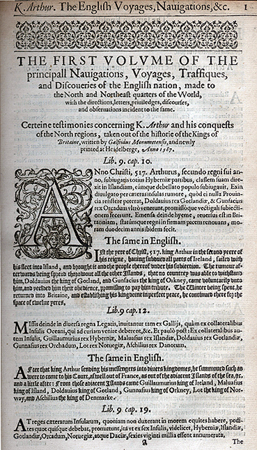 The first page of Richard Hakluyt's work The Principal Navigations, Voiages, Traffiques and Discoueries of the English Nation, Made by Sea or Overland... at Any Time Within the Compasse of these 1500 [1600] Yeeres, &c. (London: G. Bishop, R. Newberie & R. Barker, 1599).